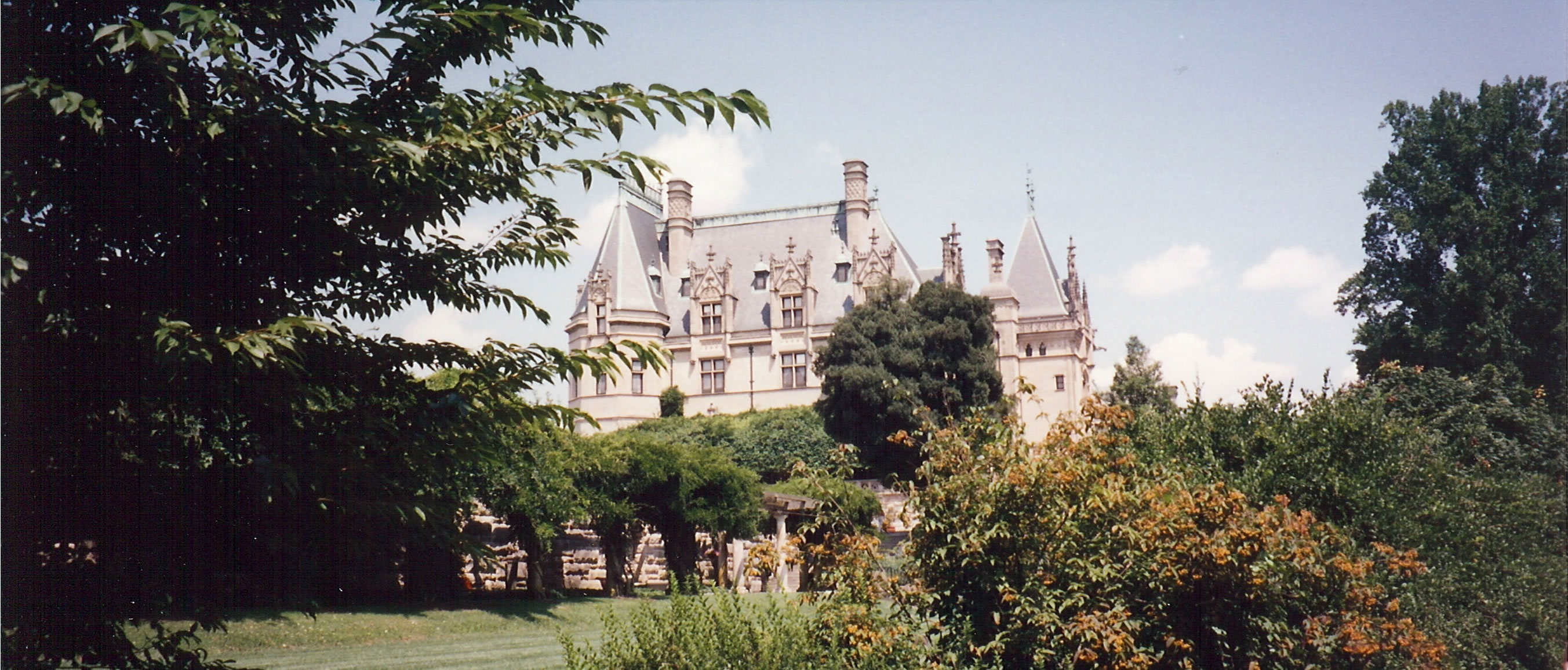 View of the gardens of the Biltmore Estate.